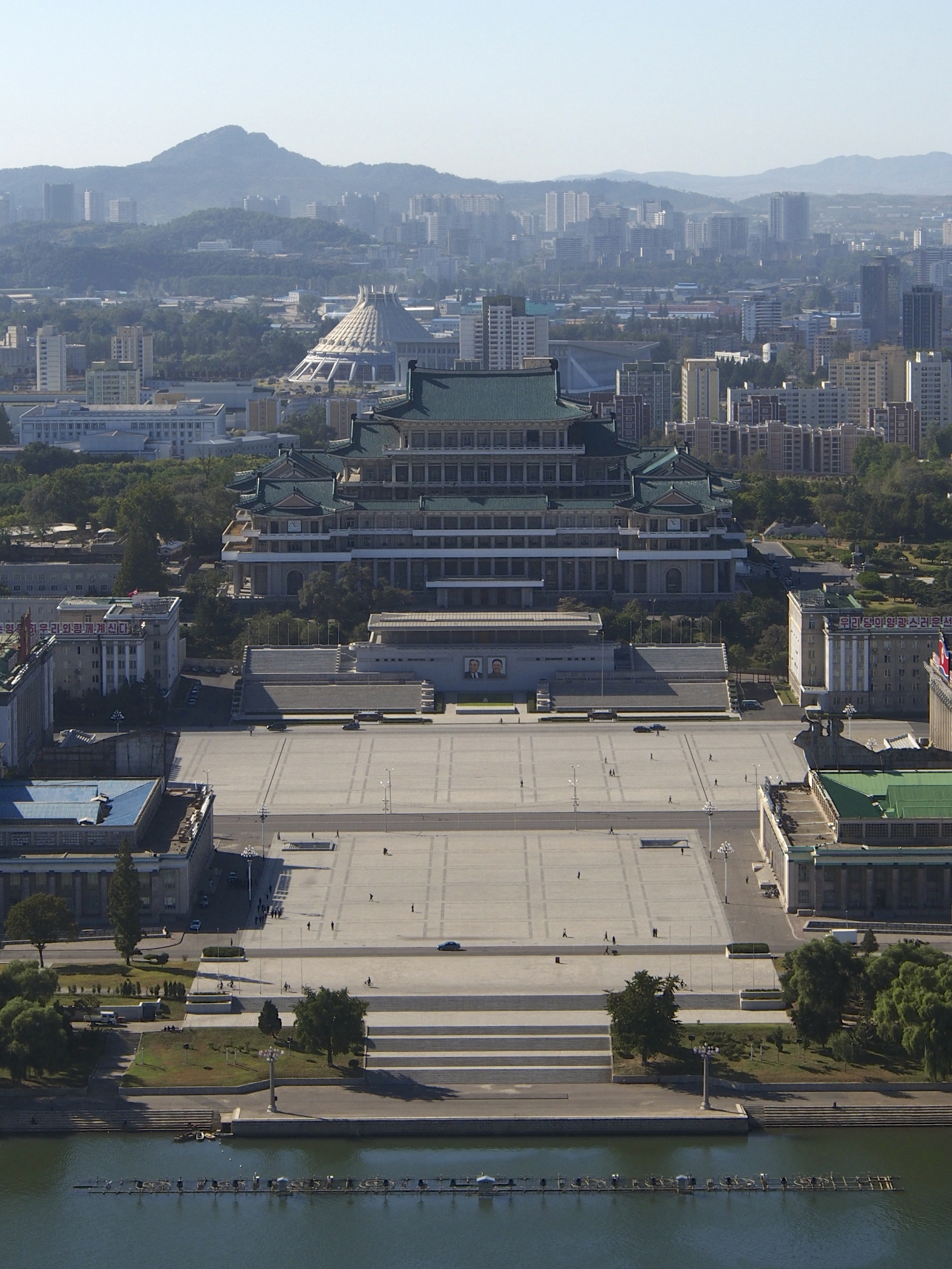 Taken from the observation deck of the Juche Tower. Young Pioneer Tours 2013 Chinese National Day Tour. For a video of the trip made by the DPRK tourists authority take a look at